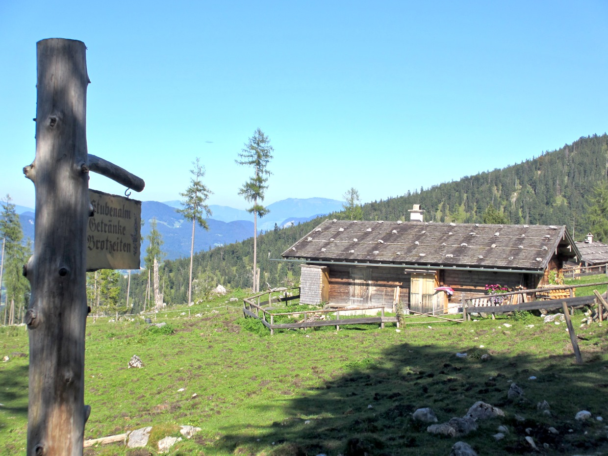 alp "Stubenalm"